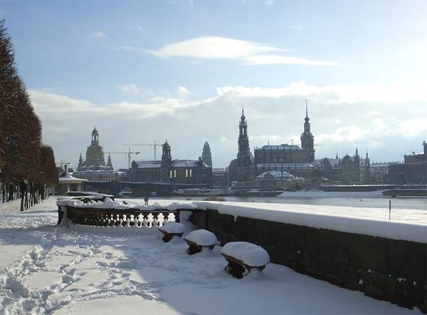 Photo taken during winter